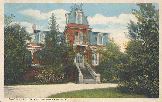 Sans Souci Country Club, Greenville, South Carolina Postcard Former home of Governor Benjamin Perry